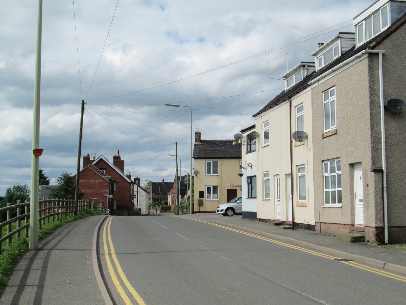 Looking north-west along High Street, Kingsley, part of the A52 road.